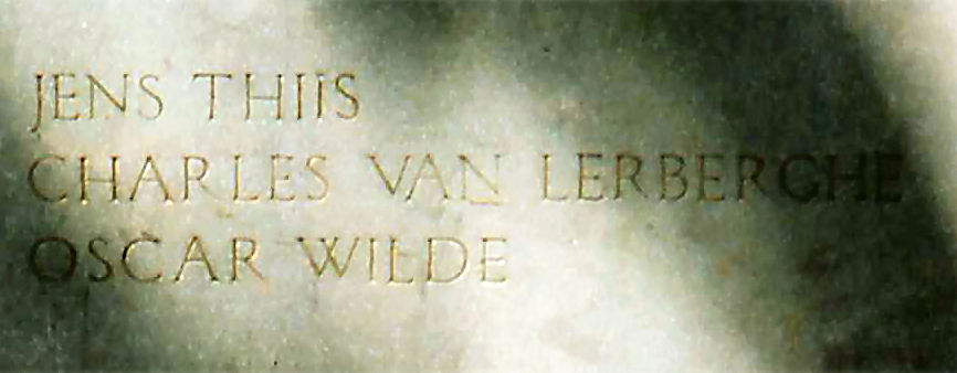 Monument over hounourable citizens of Firenze. Detail Jens Thiis. Foto: Frode Inge Helland 1975